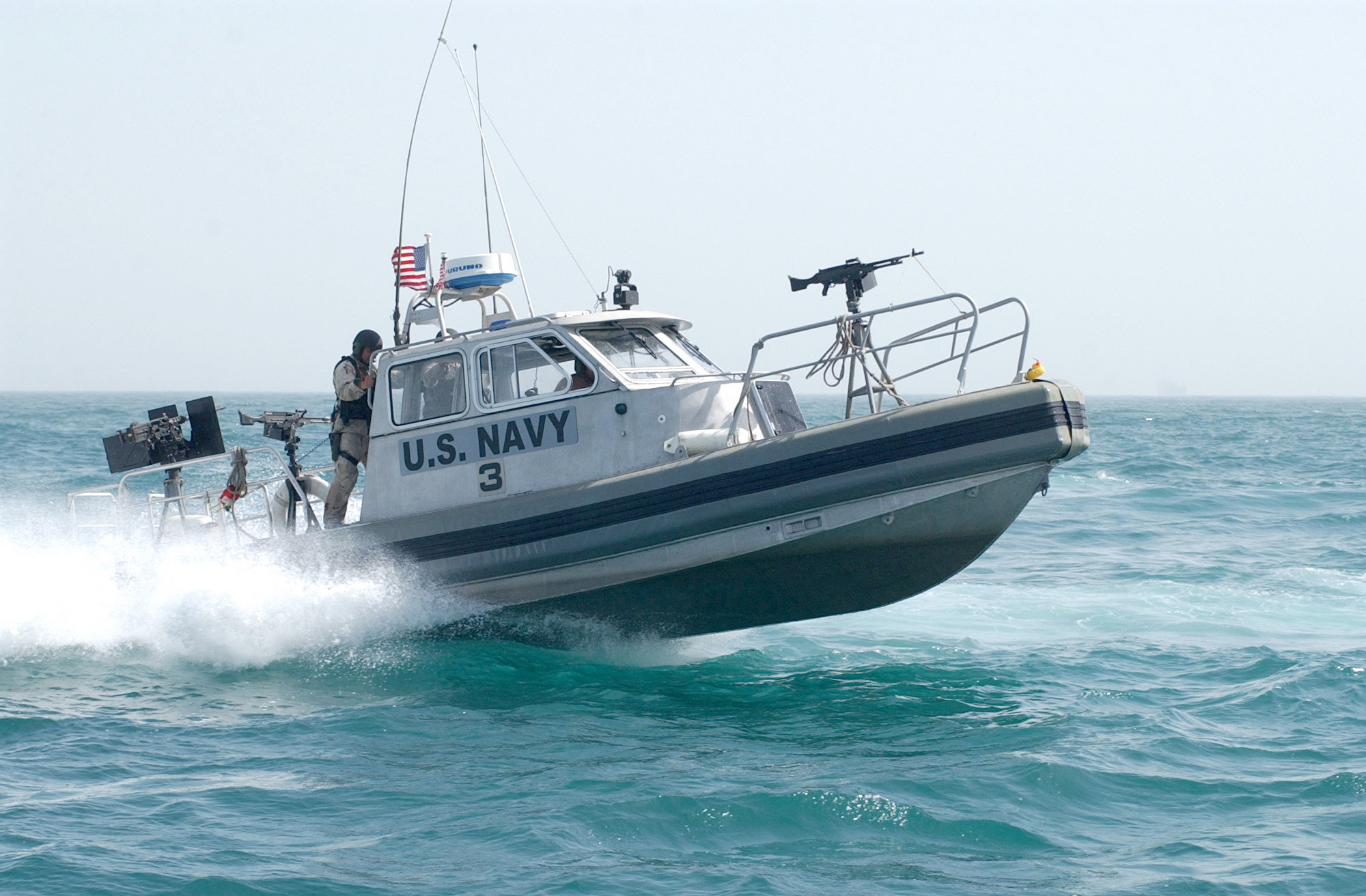 Central Command Area of Responsibility (Feb. 20, 2003) -- A boat crew assigned to Inshore Boat Detachment consisting of personnel assigned to Inshore Boat Unit Fifteen and Seventeen patrols the harbor of a forward location in a 27-foot patrol boats. Inshore Boat Detachment is part of Naval Coastal Warfare Task Group One and forward deployed in support of Operation Enduring Freedom. U.S. Navy photo by Photographer's Mate 1st Class Arlo K. Abrahamson. (RELEASED)